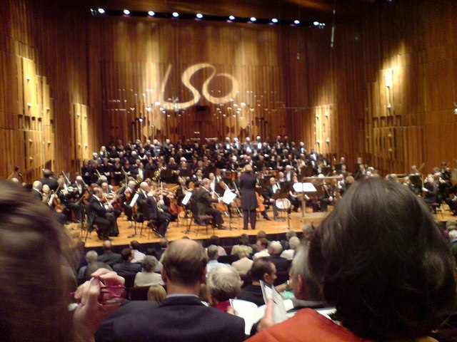 Barbican Hall, near to London, City of London, Great Britain. The concert hall at The Barbican. On stage, the London Symphony Orchestra, and the London Symphony Chorus, awaiting their conductor Sir Colin Davis, at the start of his 80th birthday Gala Concert. We were treated to Gidon Kremer playing the Elgar Violin Concerto, and Mozart's Requiem. Both were superb performances, and I would have been happy to have heard either piece on its own, but the combination made for a sublime evening.